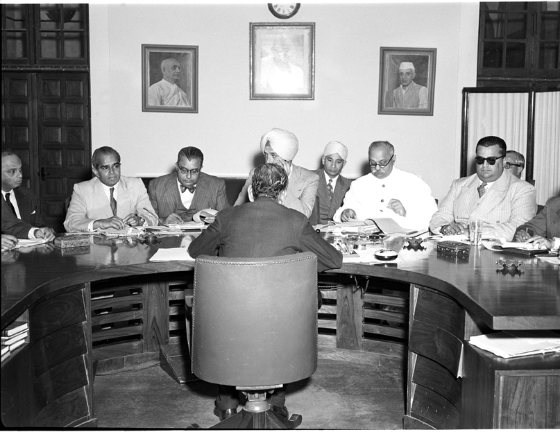 Photo Studio/17.3.52, A22cShri Copalaswami Ayyangar, Minister for States, Addressing the Rajpramukhs’ Conference in New Delhi on March 16 1952.